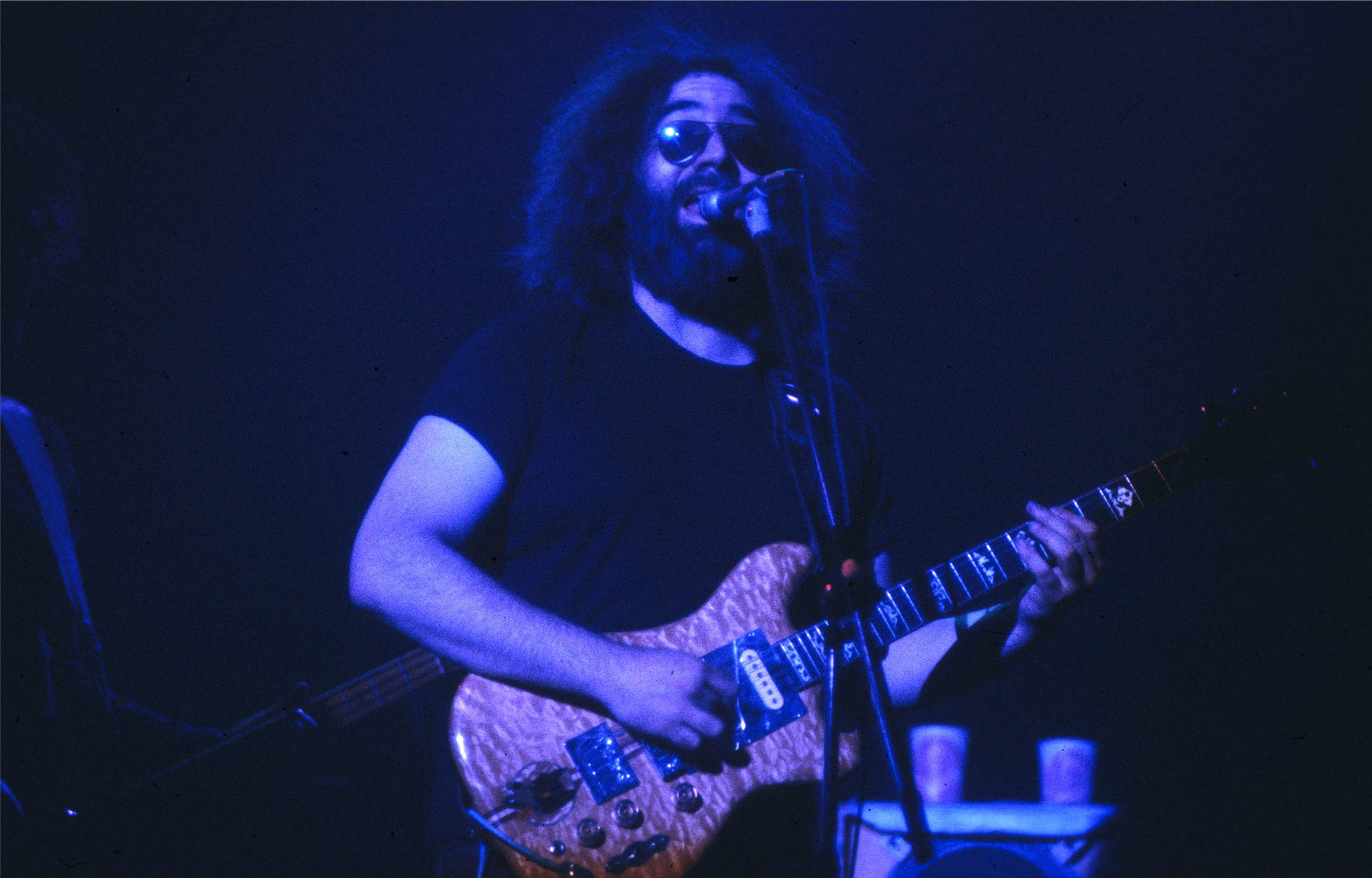 Jerry Garcia, Grateful Dead, May 10 1980, Hart Civic Center, New Haven, CT. Wolf by Doug Irwin (Sonoma, CA)